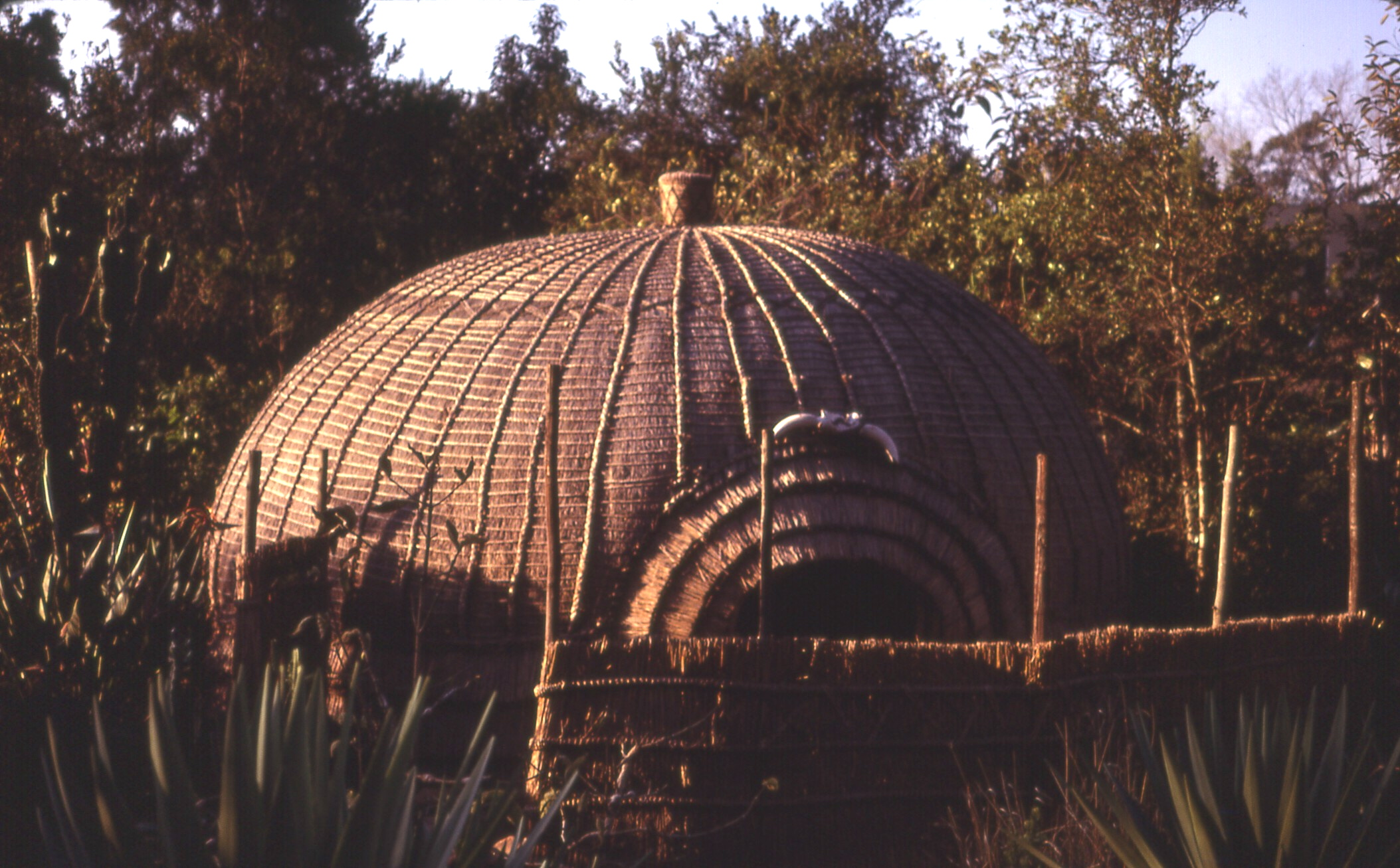 Portable market hut, Mbabane, Swaziland. Photo taken in the winter of 1979